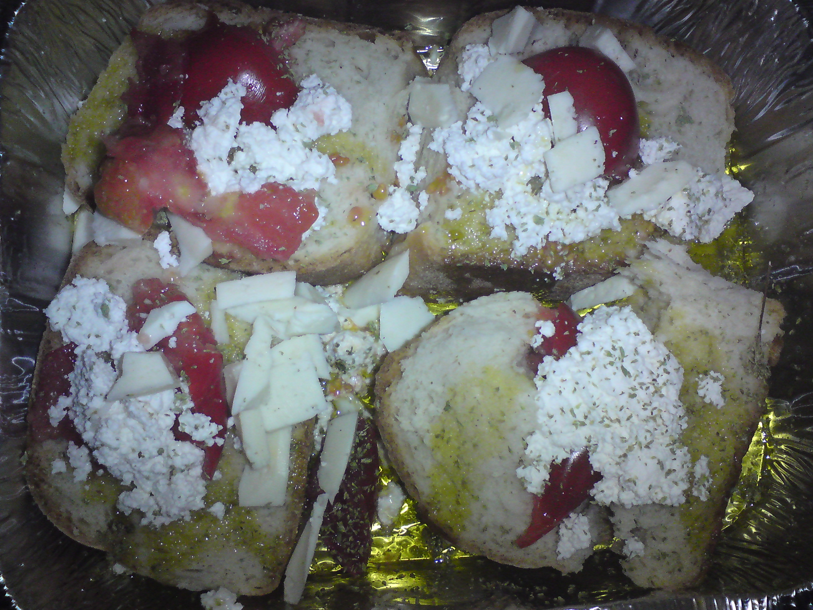 Riganada, a traditional dish on the island of Kefalonia, Greece and comprising soaked stale bread drizzled in olive oil & vinegar with fresh tomatoes and feta or other local cheese and sprinkled with oregano.